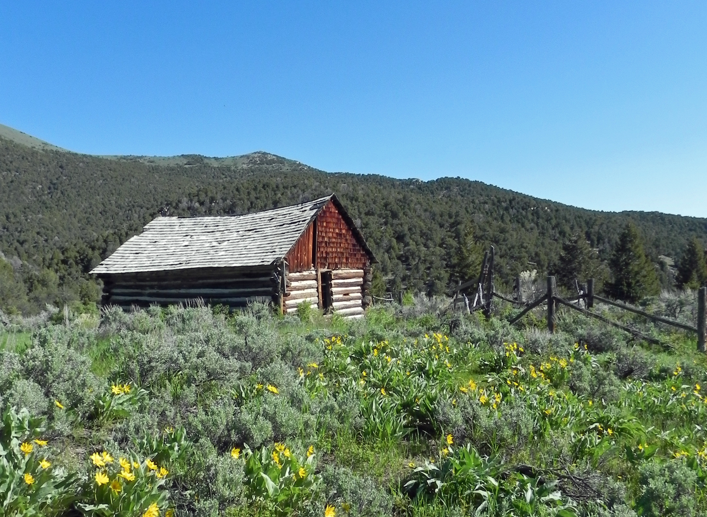 An old Forest Service cabin in the Raft River Mountains of Sawtooth National Forest in northern Utah.